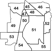 Redivided community areas. North side of Chicago, adapted from the Community areas of Chicago map. Created in Macromedia Flash 4. PNG-8 Index transparency.